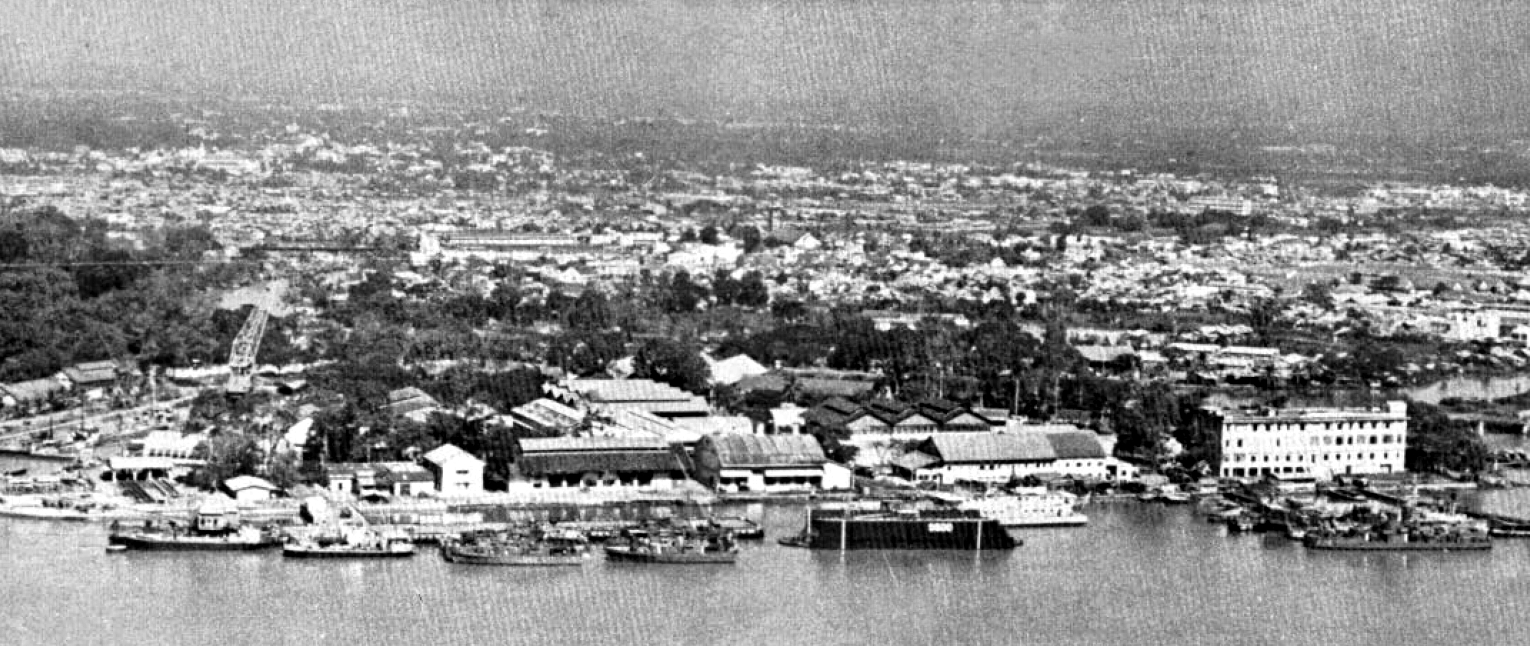 View of the Saigon Naval Shipyard, Vietnam, circa 1968. The 230,000 square meter shipyard, located on the southwest bank of the Saigon River about 48 km from the South China Sea, represented the largest single industrial complex in South East Asia. The shipyard had been created by the French in 1863 as a major repair and resupply base. In 1969, 1,800 men were employed there, repairing and overhauling vessels.